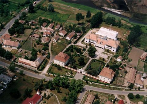 Szügy, Hungary, aerialphotography